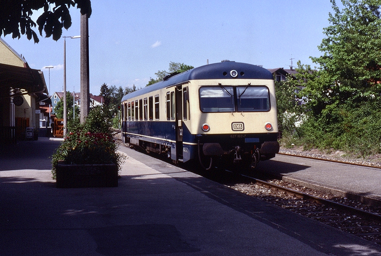 Single car unit no. 627.102 at Bad Wörishofen on 20 May 1992 with train 5961, 15:30 Bad Wörishofen to Türkheim (Bayern) Bf.